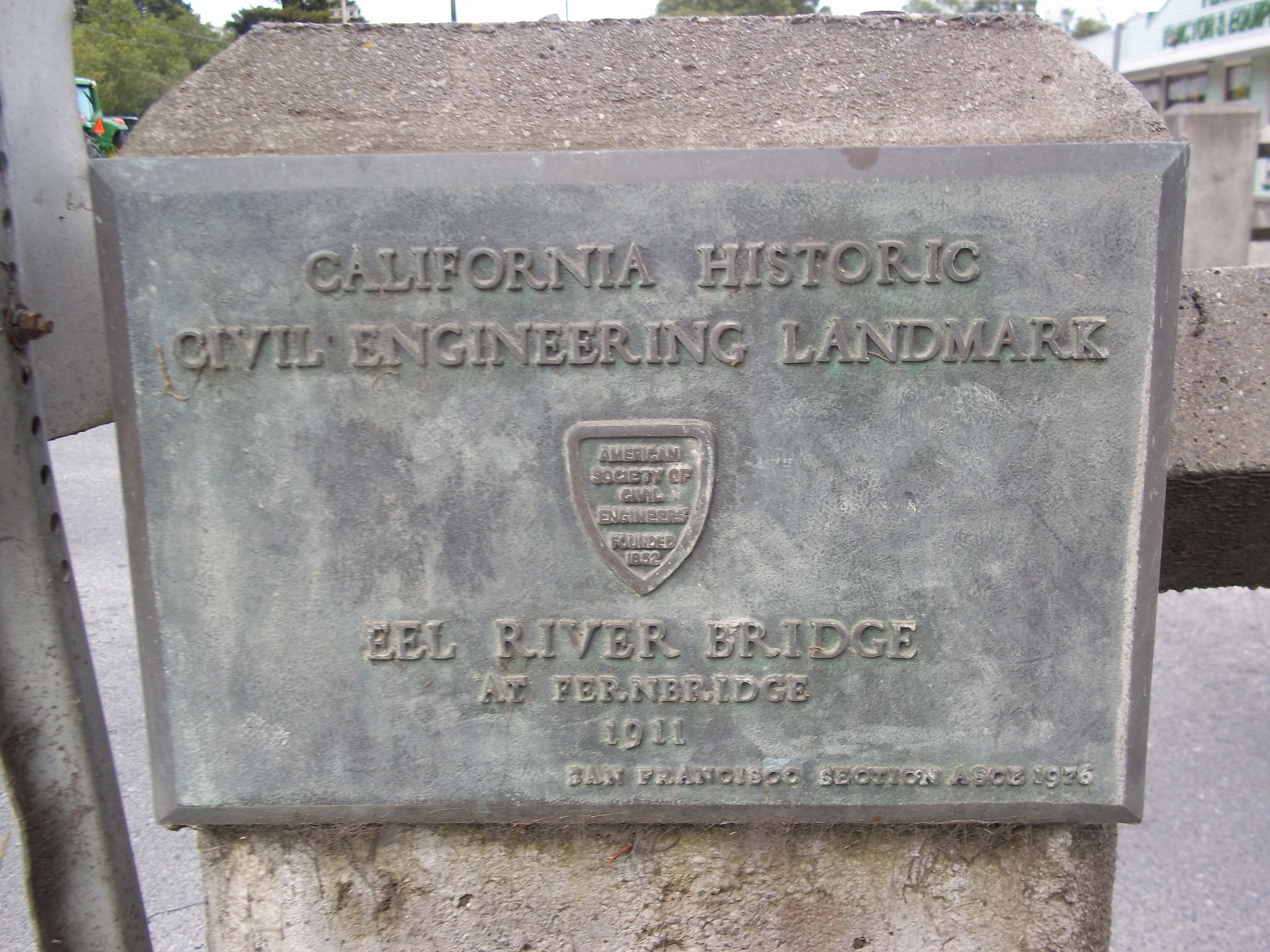 The plaque on the Eel River Bridge, commonly known as the Fernbridge (bridge), for its official designation as a National Historic Civil Engineering Landmark.. Placed by the American Society of Civil Engineers—ASCE, on the northwest corner of the bridge. The plaque is on the Fernbridge (town) community side of the Eel River, facing the historic Humboldt Creamery buildings.